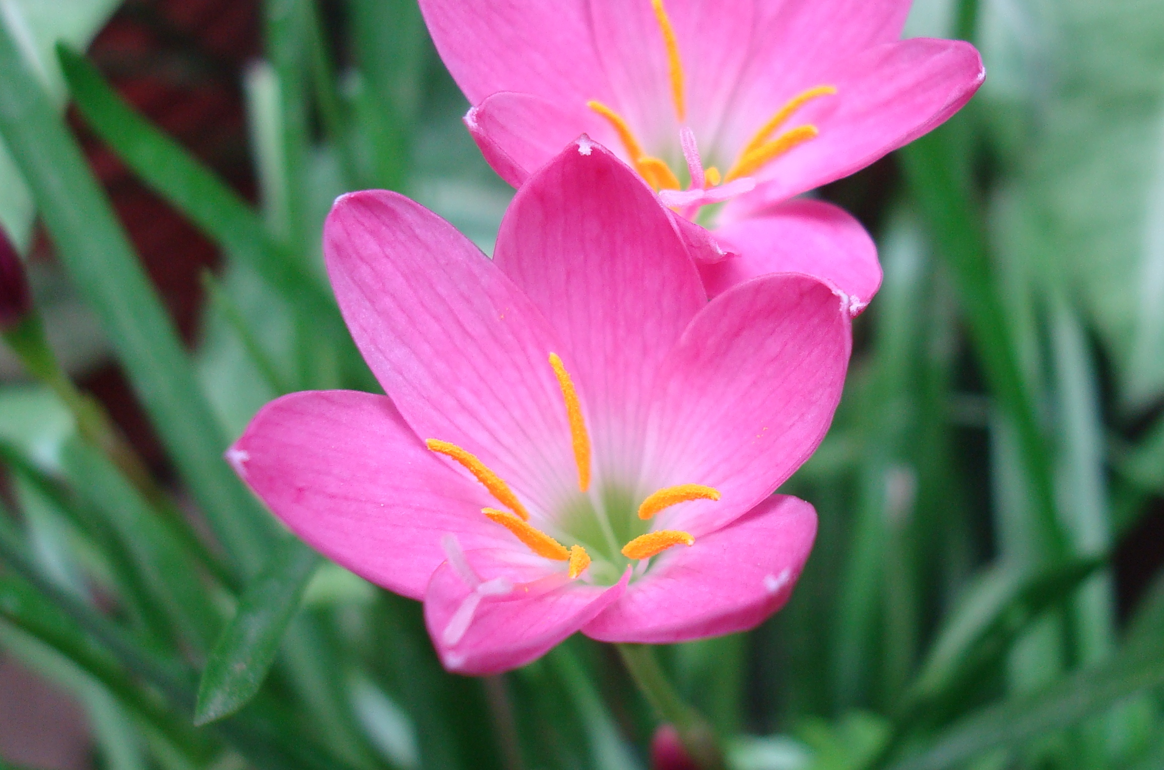 pink beauty, taken at my home. self-photographed.